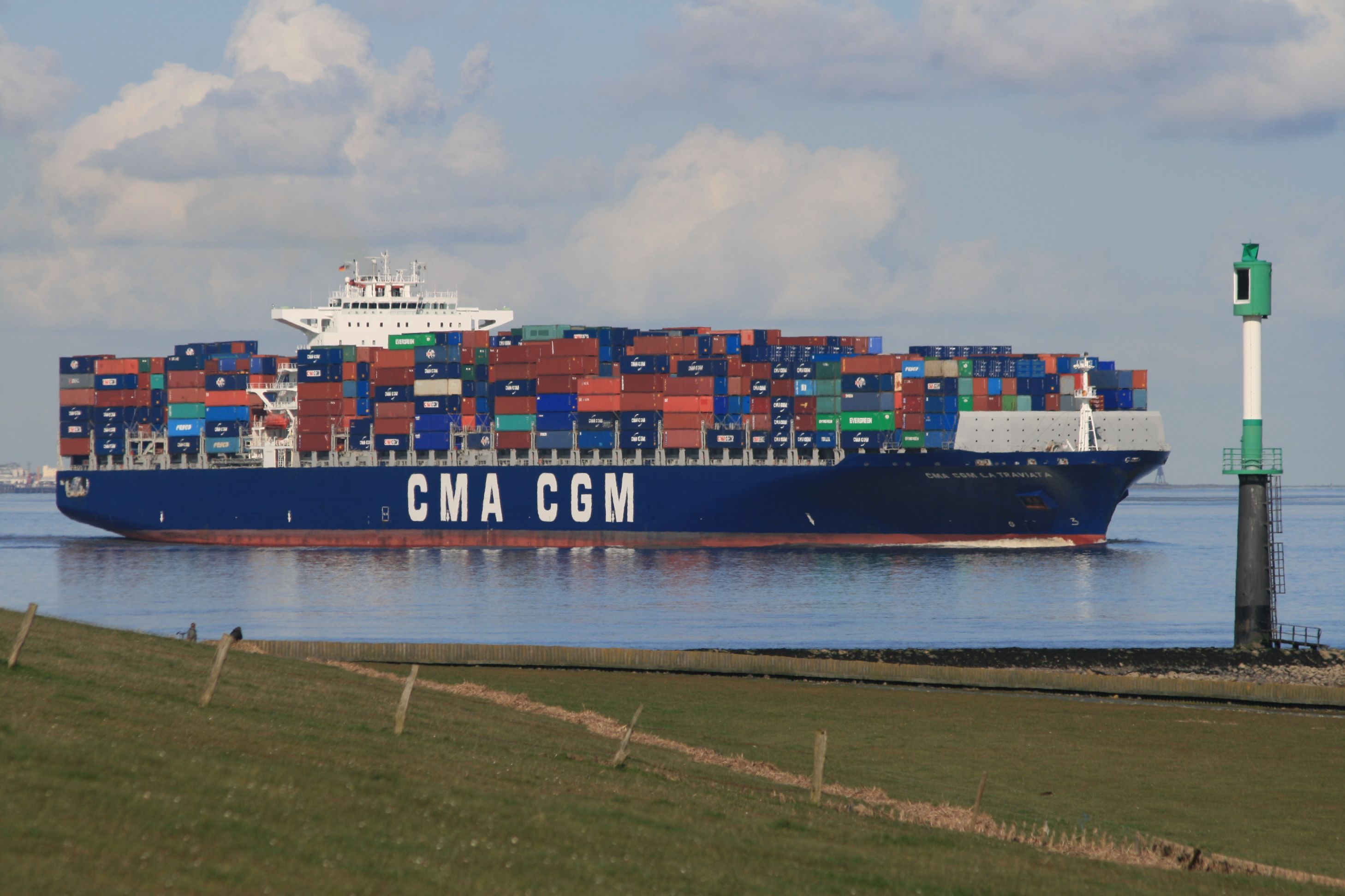 CMA CGM La Traviata (8.204 TEU) bei Glameyer Stack am 7. April 2008 Tiefgang 12,20 m in Salzwasser